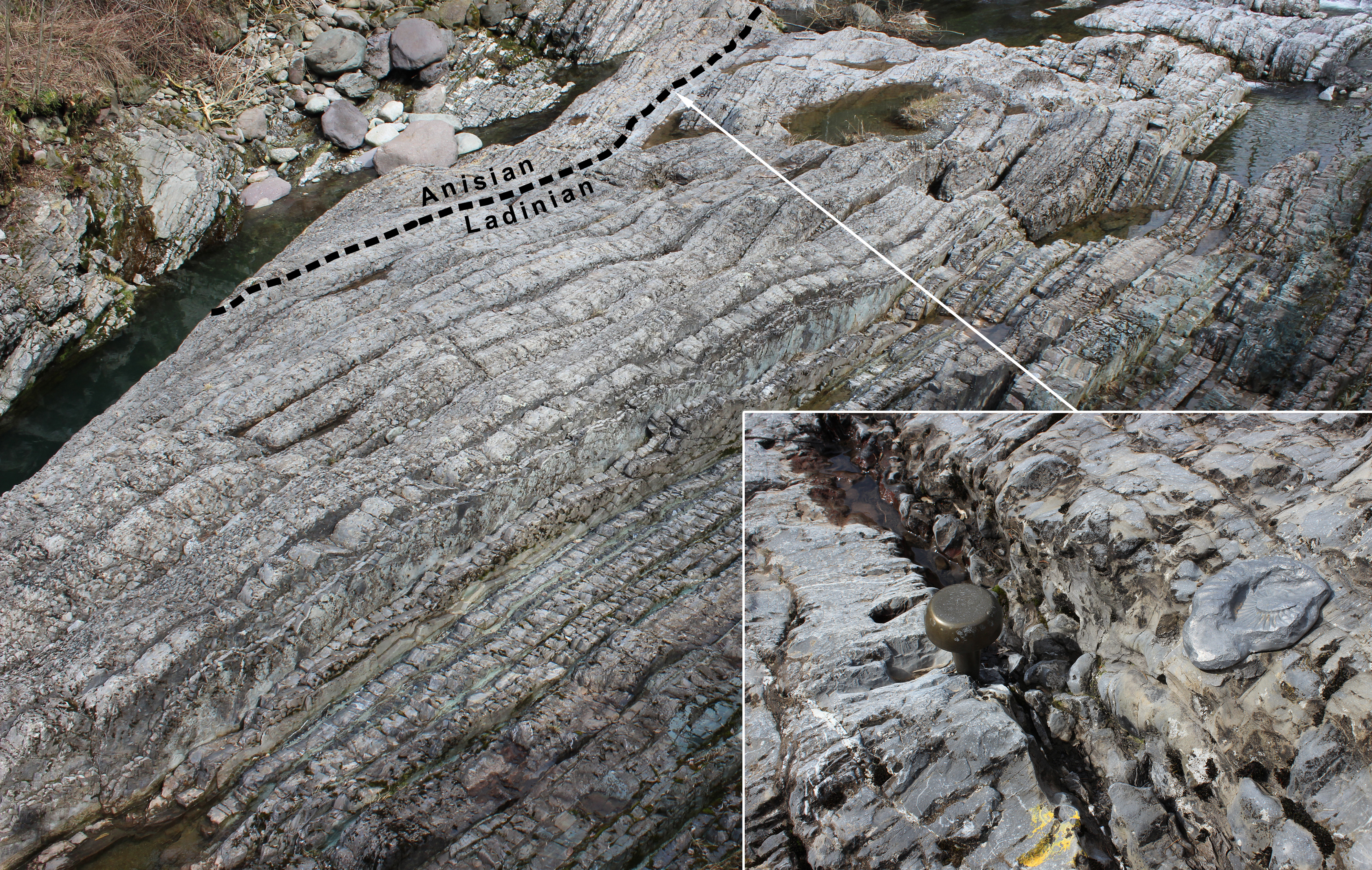 Global boundary Stratotype Section and Point (GSSP) of the Ladinian stage (upper Middle Triassic), steeply tilted deeper marine limestones of the lower Buchenstein beds, exposed at the Ponte di Romanterra, south of Bagolino, Eastern Lombardy, Italian Alps. For clarity the boundary is highlighted in the image by a dashed line (after Brack et al., 2005[1]). The beds become successively younger from the upper left to the lower right. The inset in the lower right is a close up of the boundary interval, showing the “Golden Spike”.